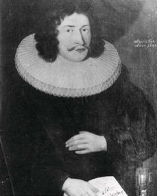 Ludvig Christophersen Munthe (1657–1708)